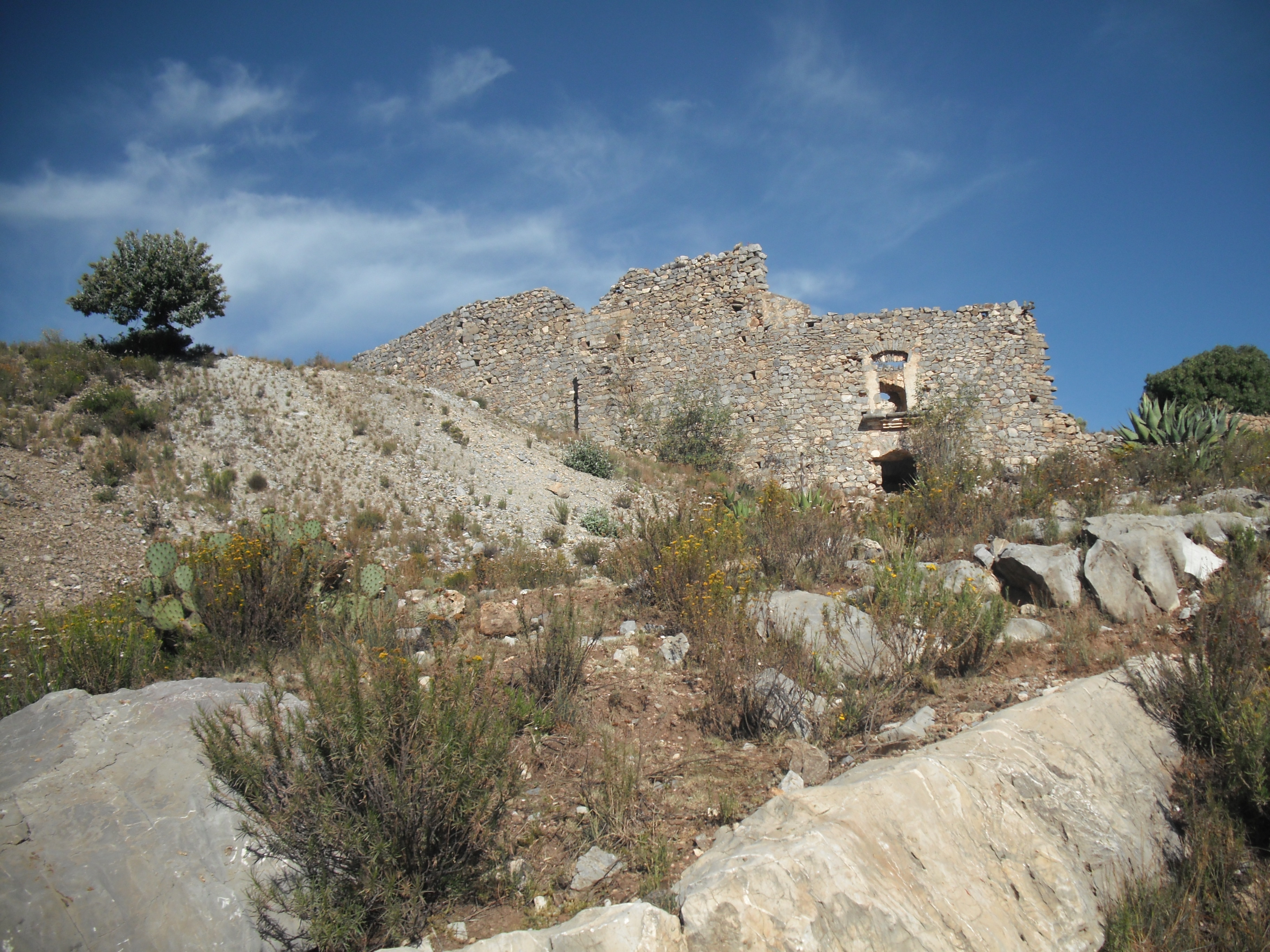 Abandoned mine atop the hill north of Real de Catorce